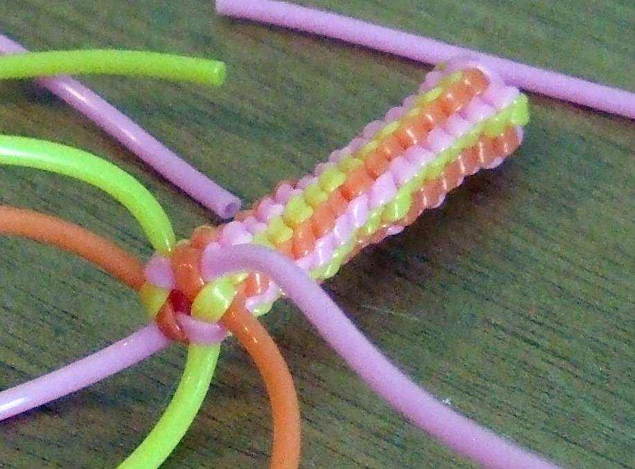 6 stranded simple scoubidou. In the distant part, layer "direction" alternates, and on the part in progress, all layers have the same "direction".